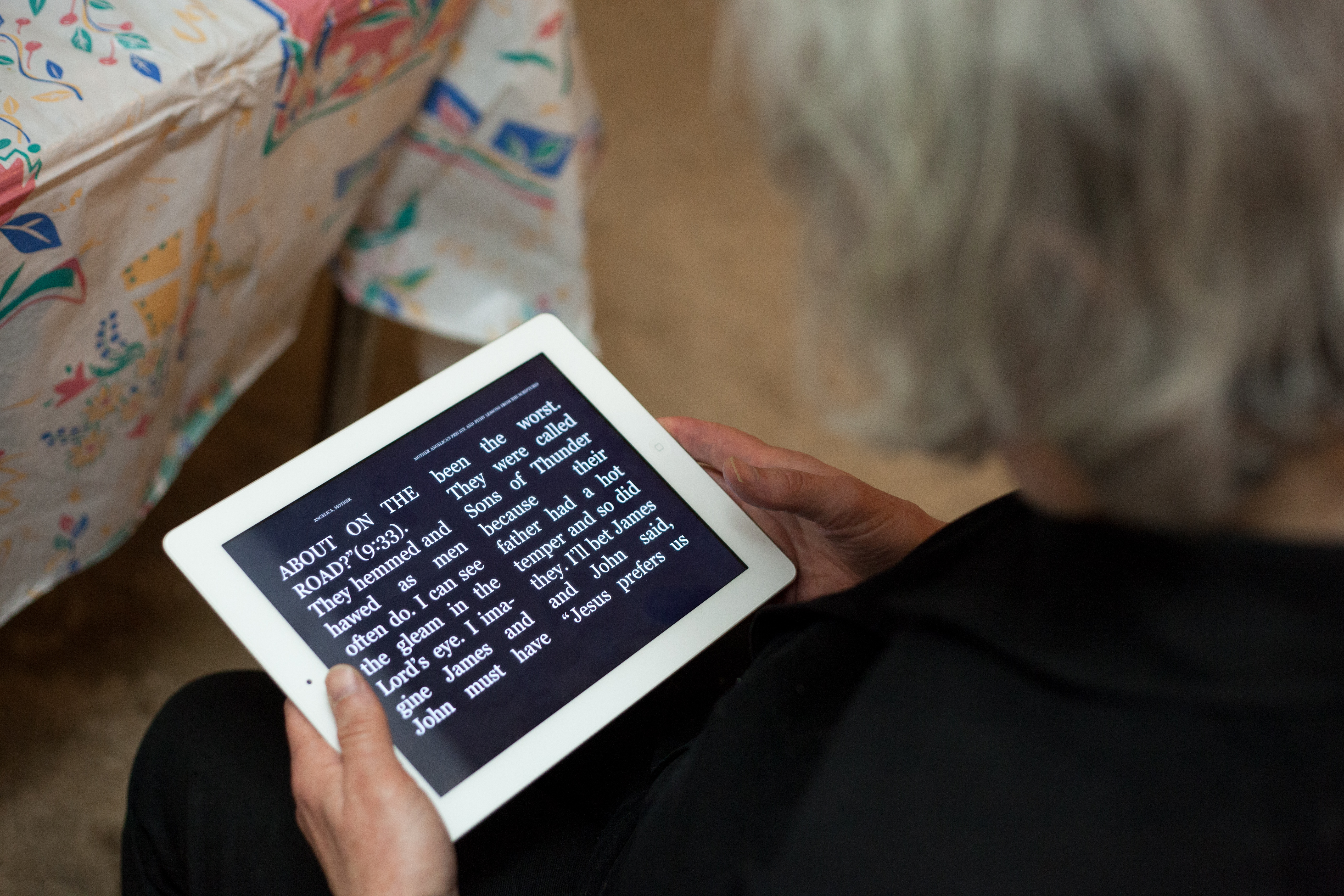 reading device